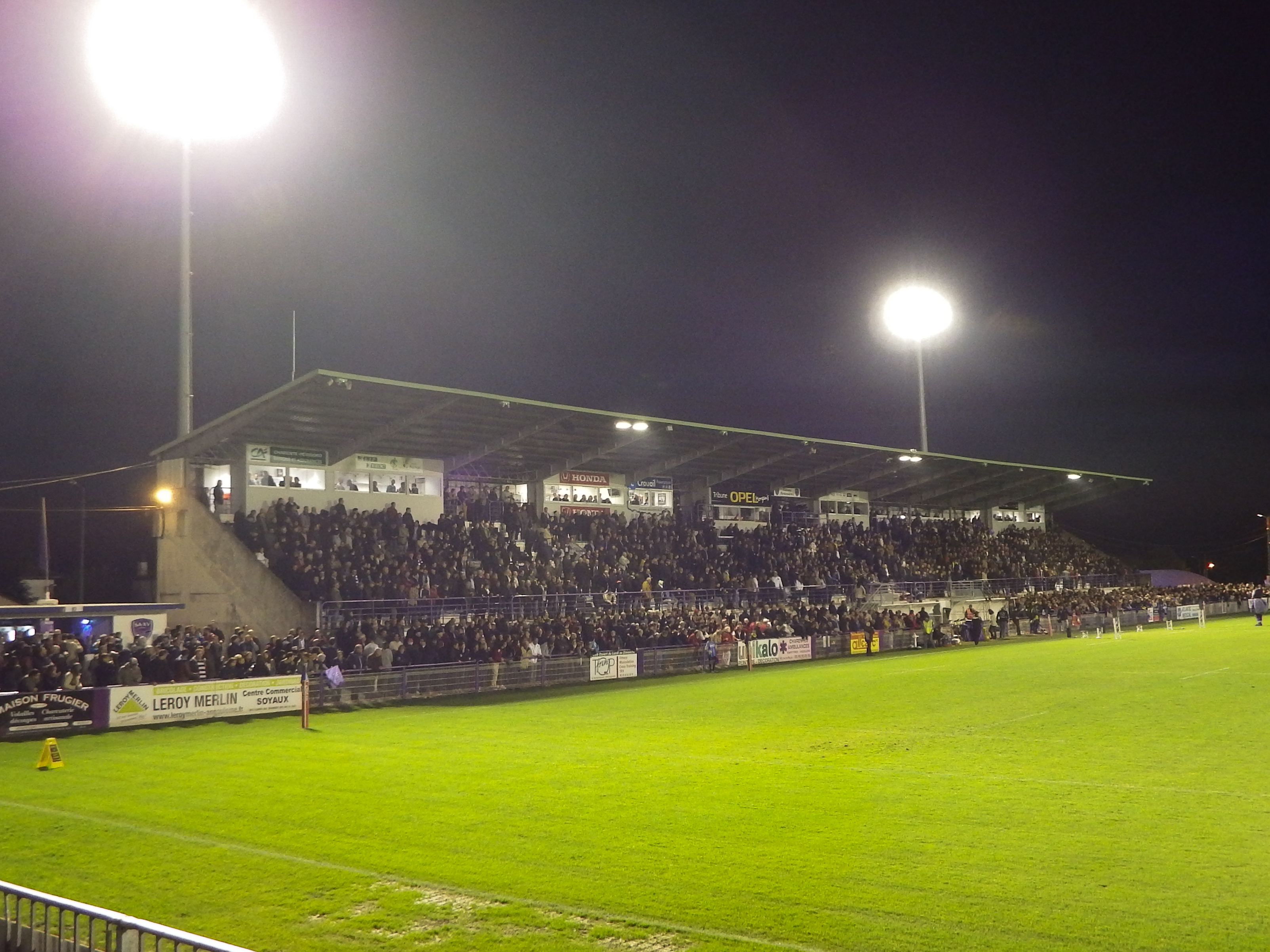 Pro D2 2016-2017 — 14 October 2016, Stade Chanzy. Match between: Soyaux Angoulême XV Charente — US Dax